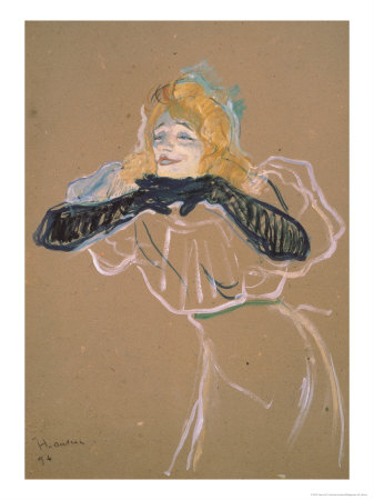 1894 poster by Toulouse-Lautrec of Yvette Guilbert singing "Linger, Longer, Loo" by Sidney Jones